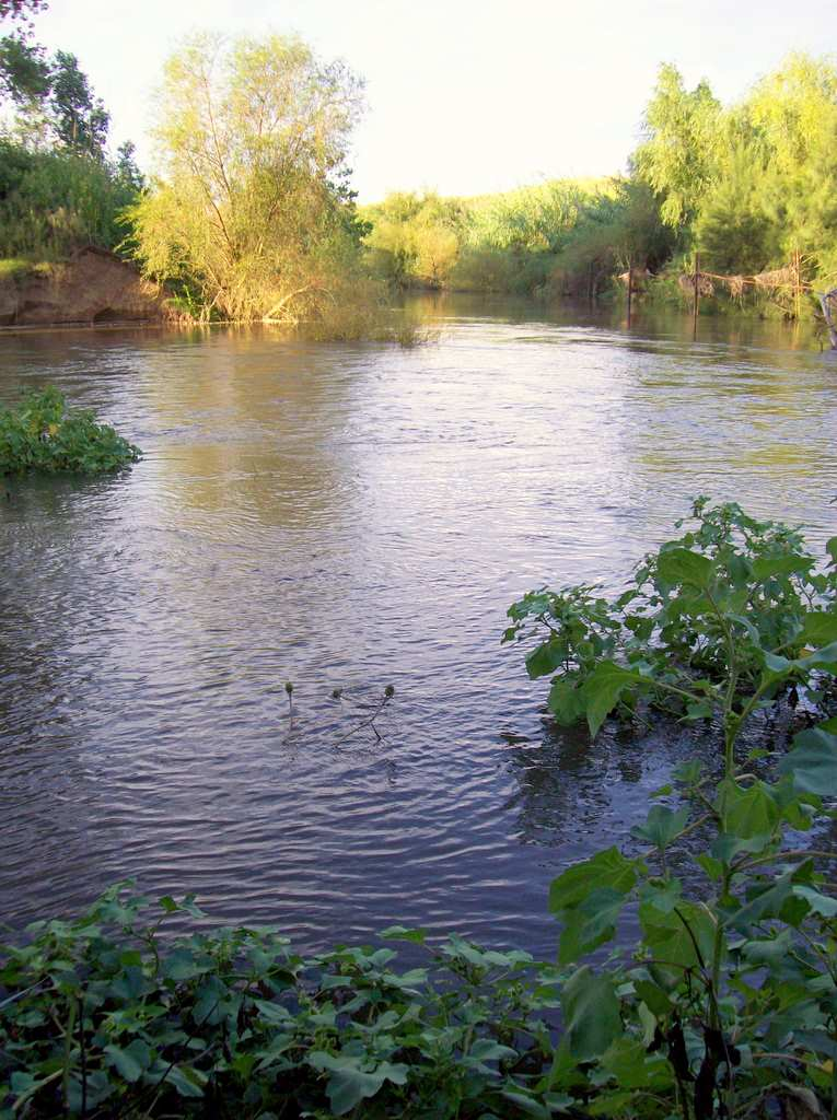 Allyn River (top right) joining the Paterson River at Vacy, New South Wales